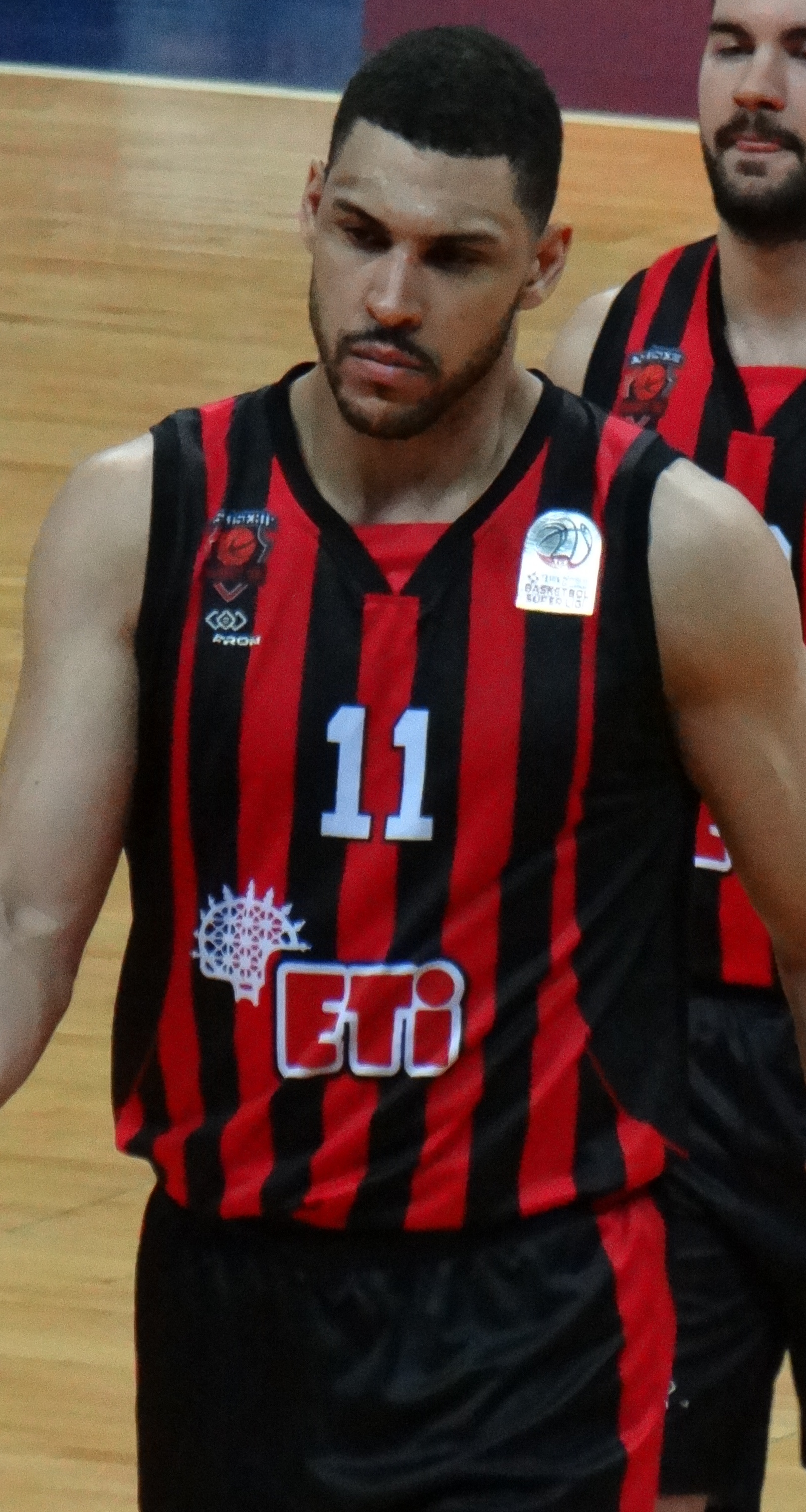 Jeff Ayres 11 Eskişehir Basket TSL 20180325